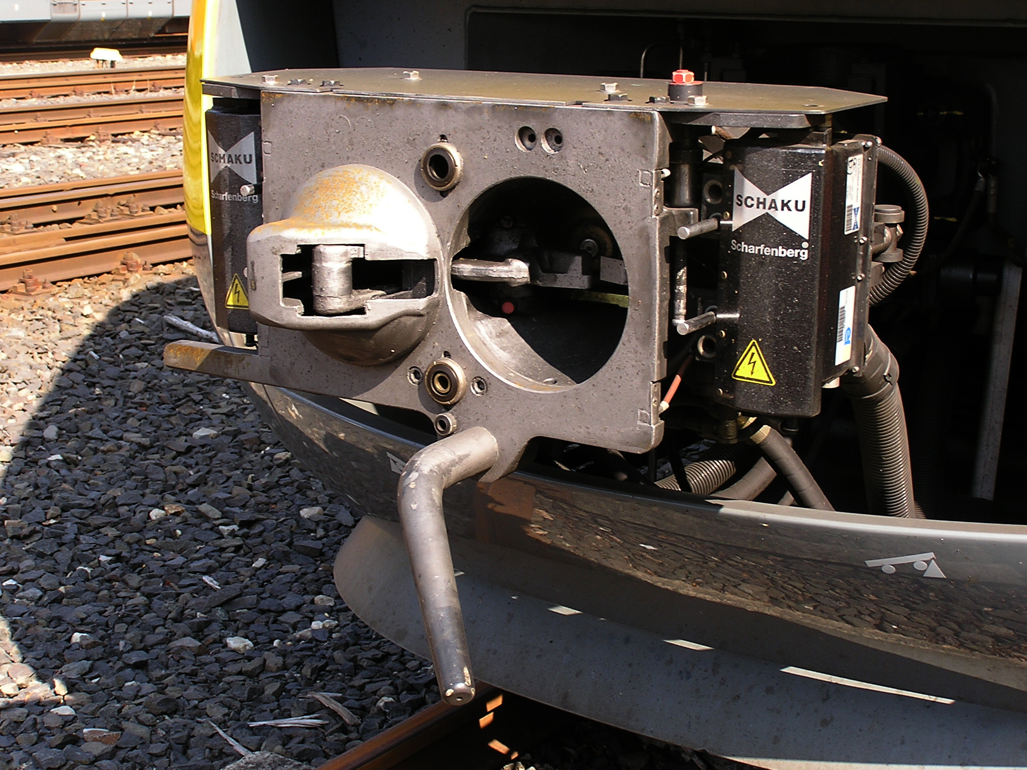 Scharfenberg coupling of a LINT